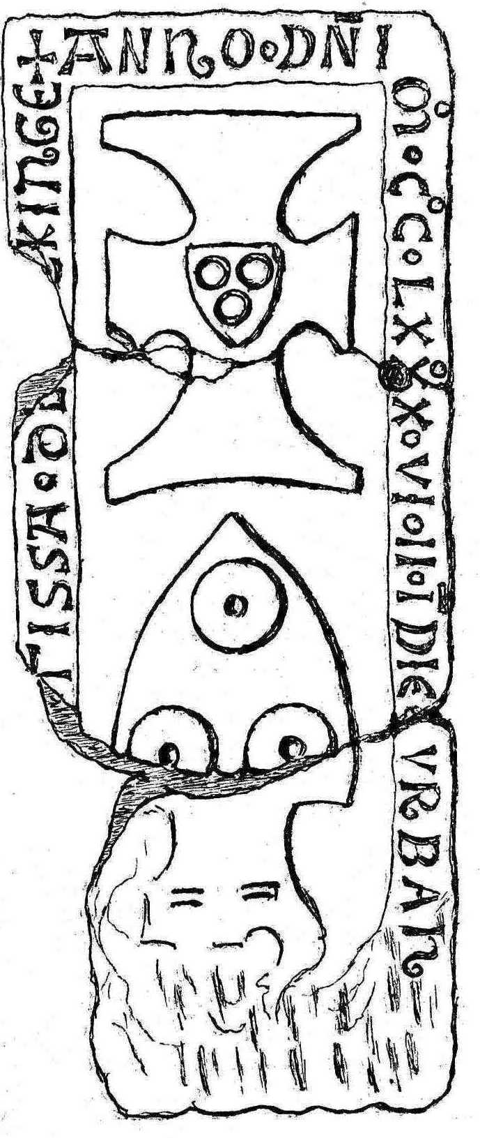 1900 Zeichnung Epitaph Böckingen